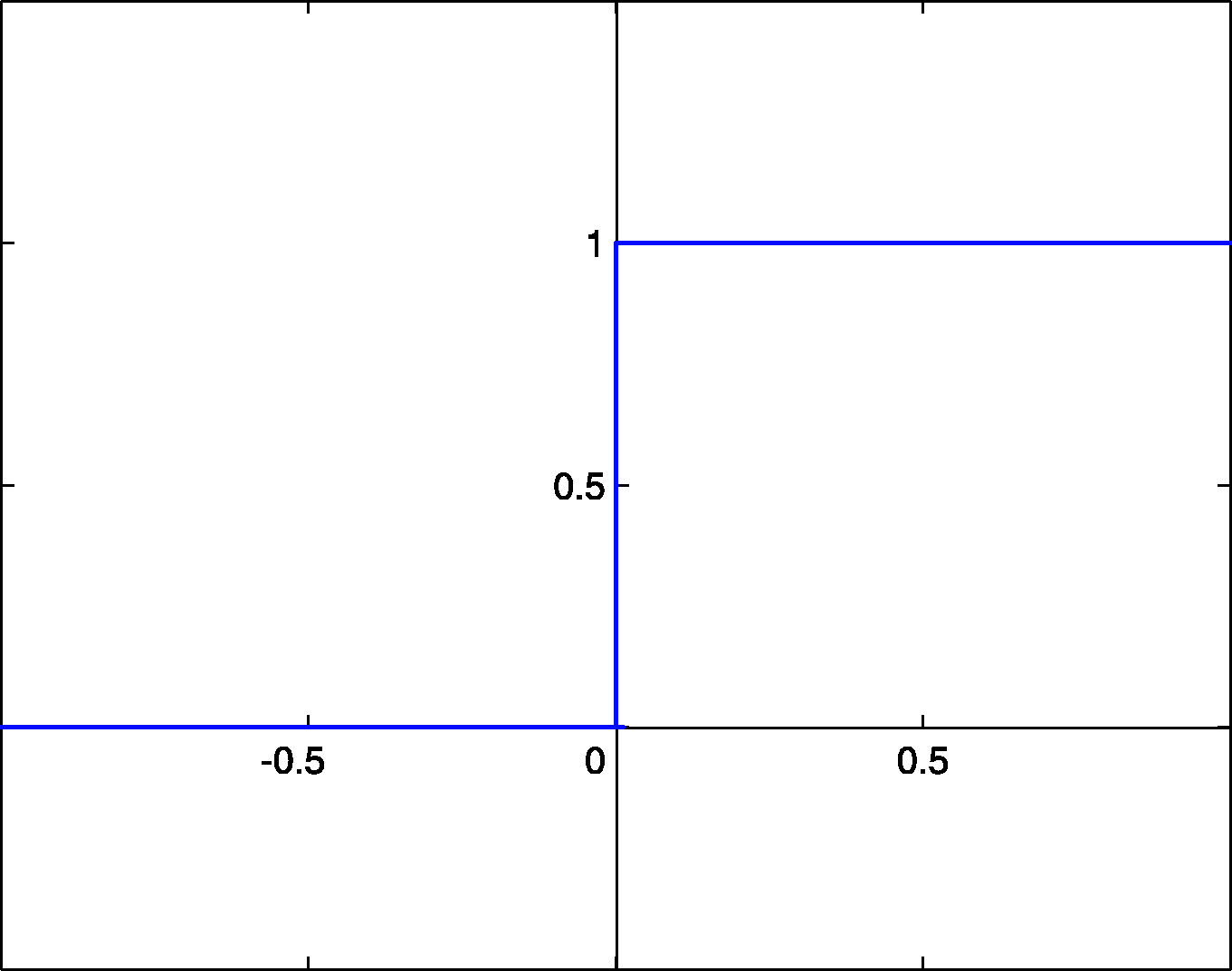 Hard limit function used as neuron activation.